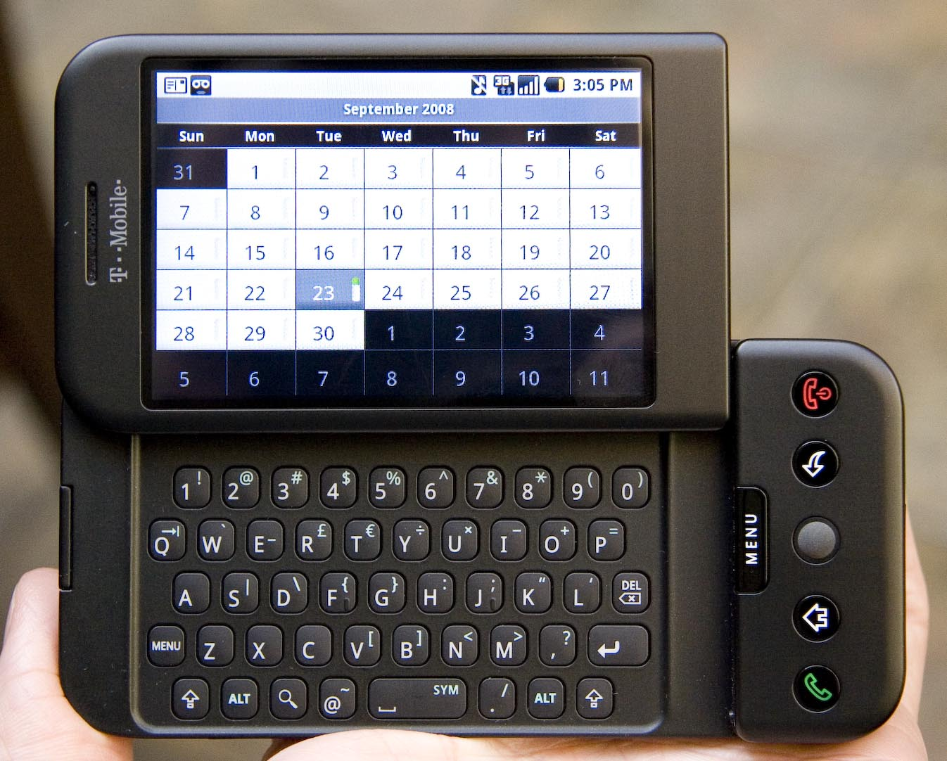 T-Mobile's G1 phone (HTC Dream), using Google's Android software